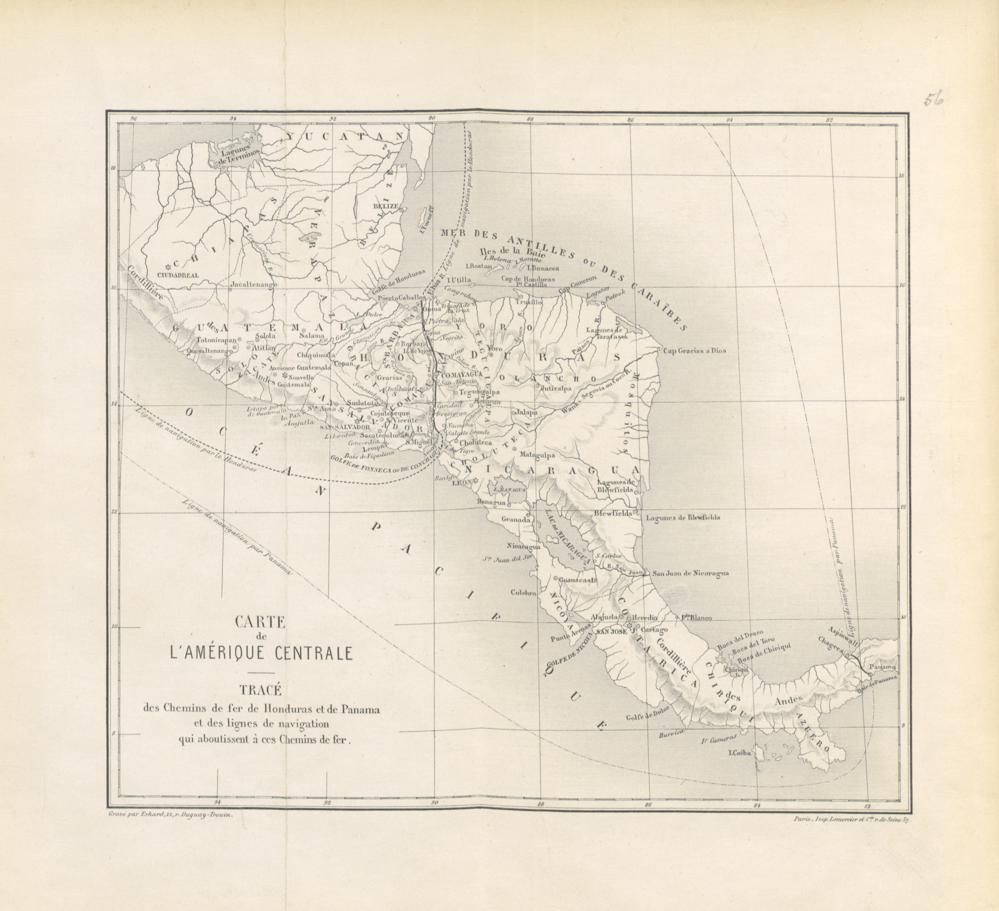 Map of Central America taken from page 12 of Une voie nouvelle à tavers l'Amérique Centrale. Étude geographique, ethnographique et statistique sur le Honduras (British Library HMNTS 10480.f.21)